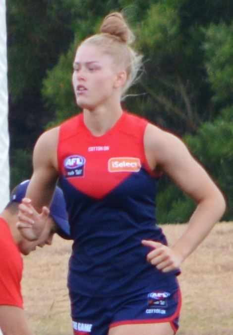 Ashleigh Woodland with Melbourne during an AFLW practice match against North Melbourne at Casey Fields on 19 January 2019